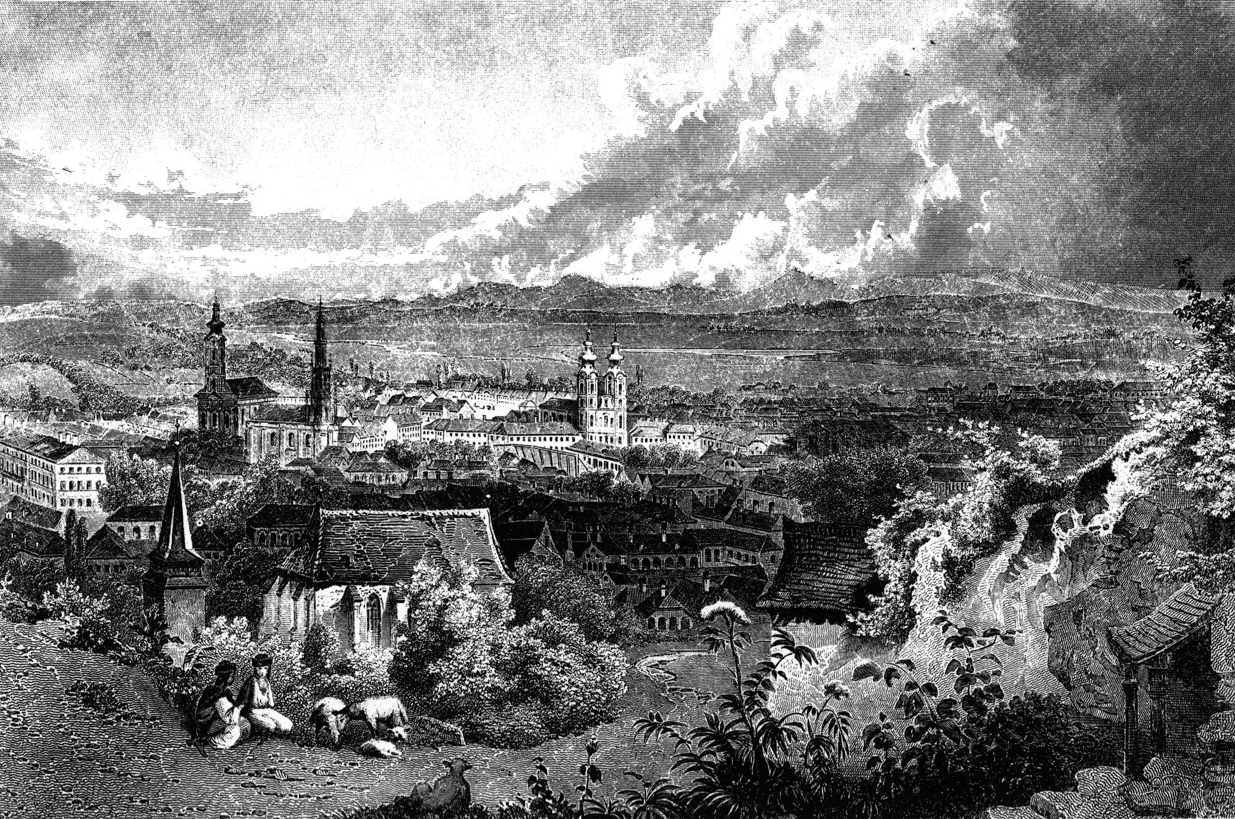 Panorama of Miskolc around 1840. Drawing by Ludwig Rohbock, engraving by Joh. Poppel)